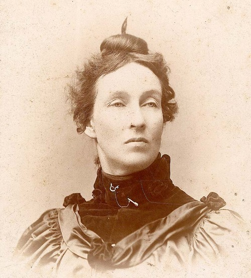 Portrait of Mary Elizabeth Lease (1850–1933), American lecturer, writer, and political activist